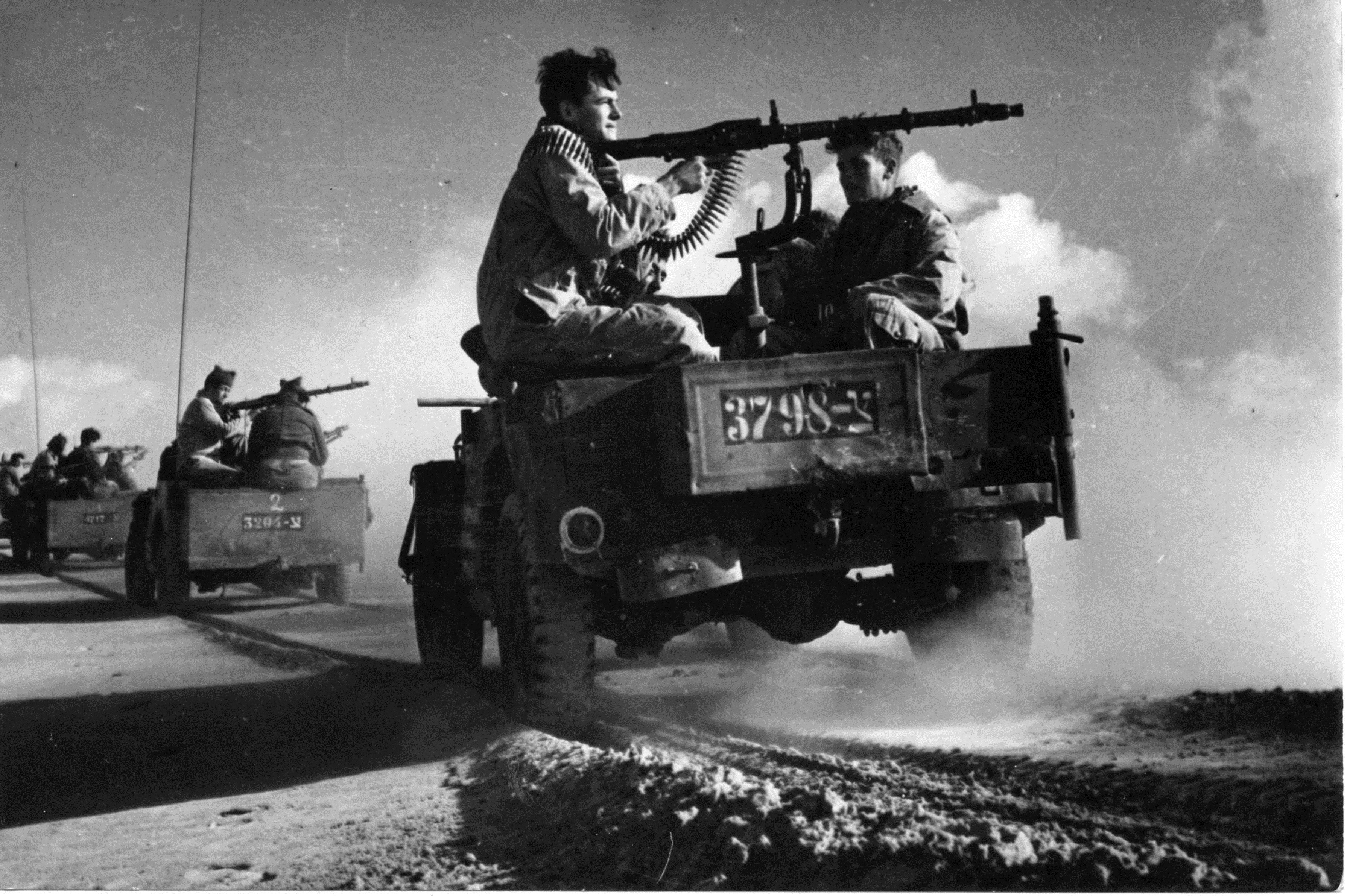 The Palmach, Israel Defense Forces